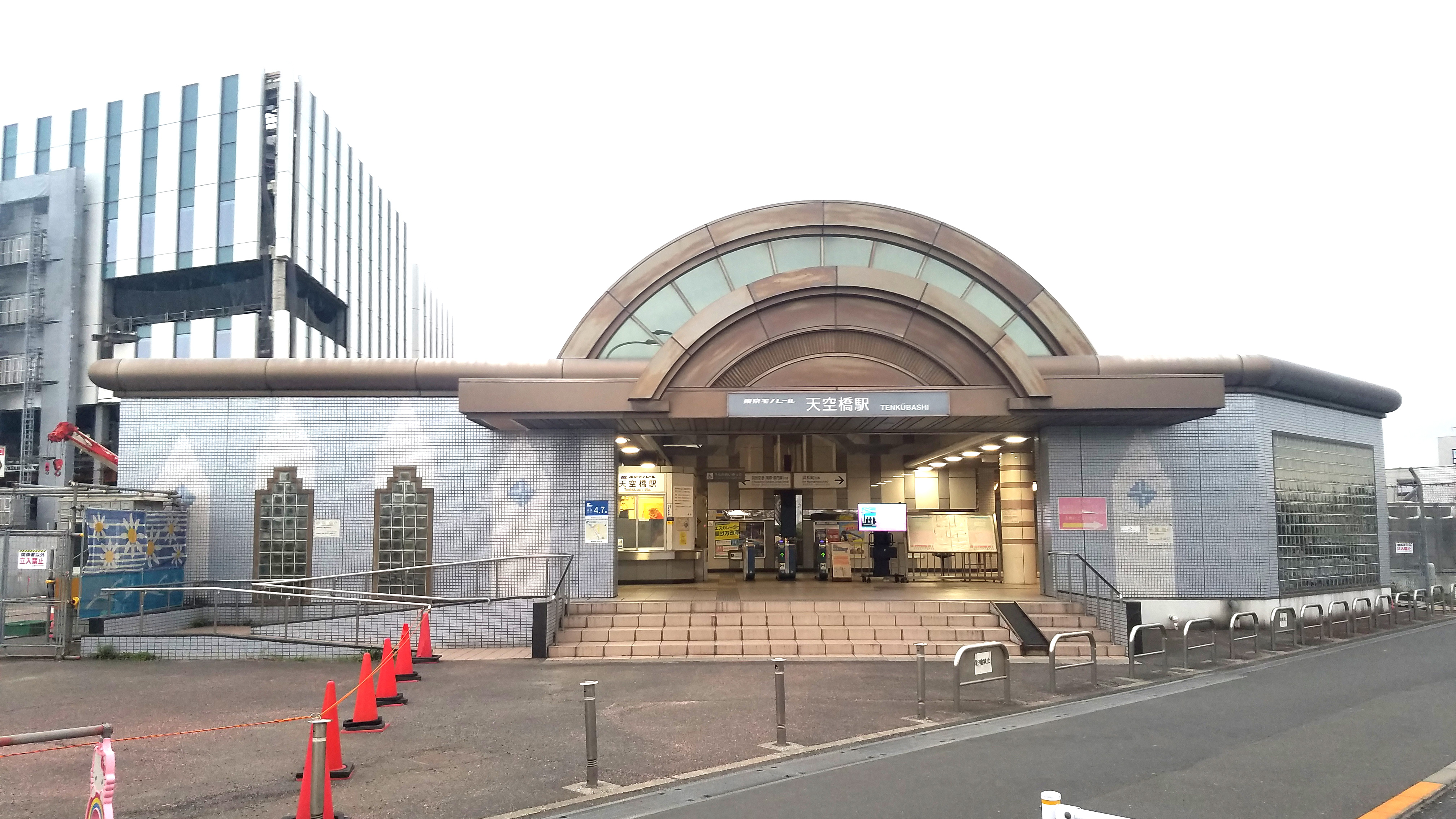 The entrance to Tenkūbashi Station on the Tokyo Monorail in Ōta city, Tokyo, Japan